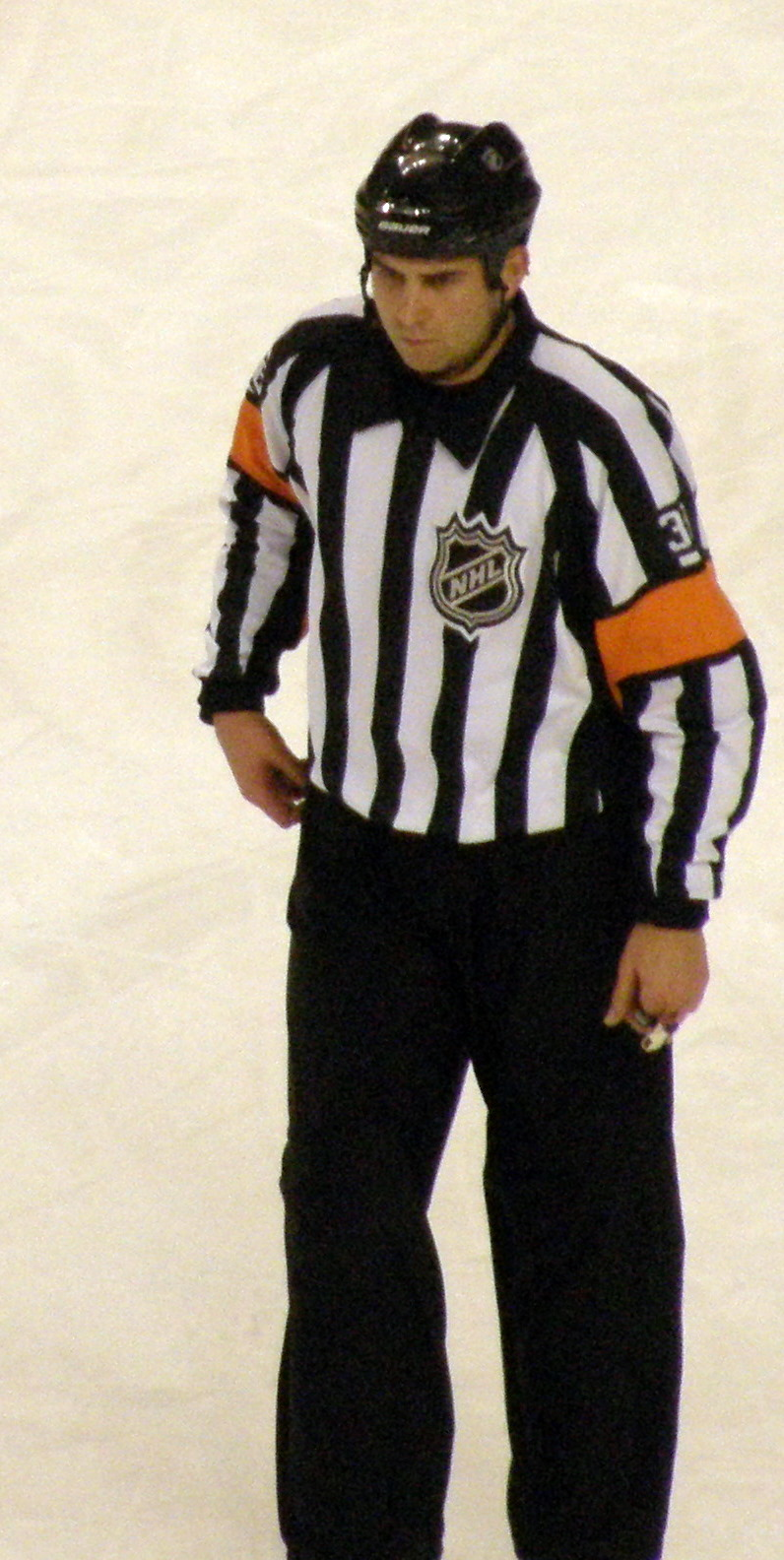 Francois St. Laurent in a game between the Washington Capitals and Boston Bruins (2 February 2010).